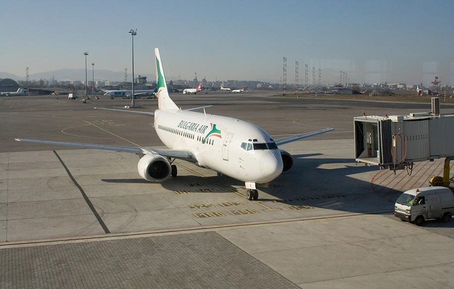 Bulgaria Air plane on Sofia Airport tarmac.jpg